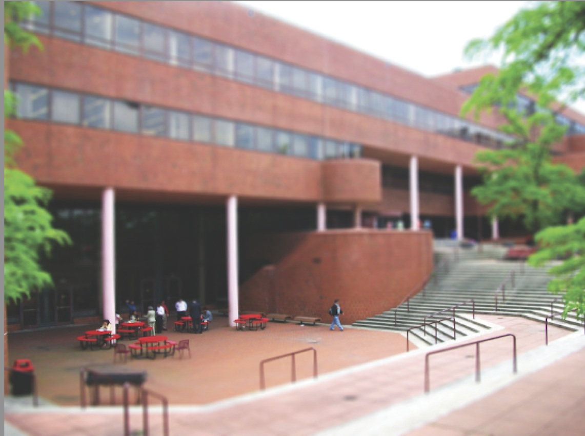 Academic Core Building - Plaza